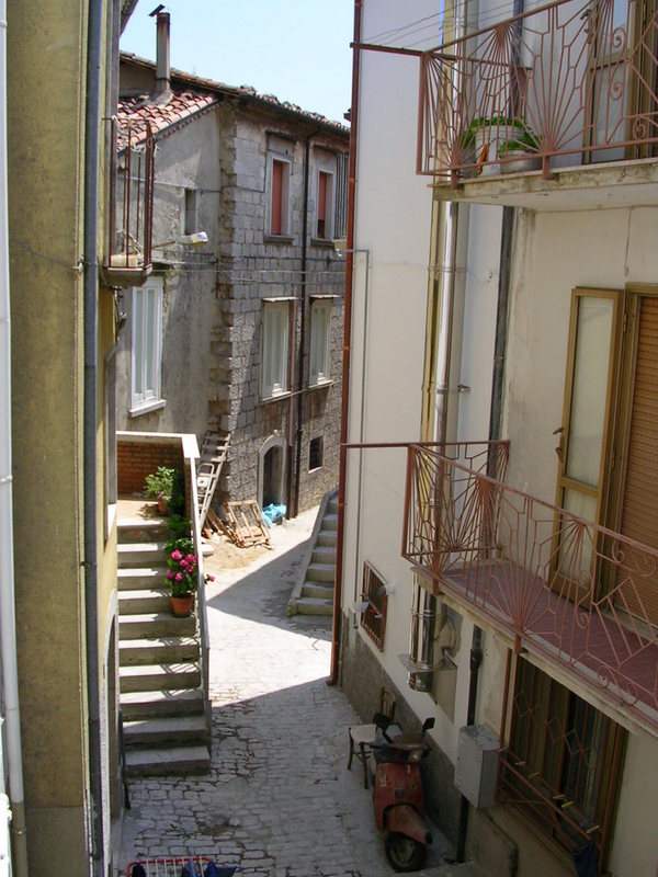 Taken by Paul Bosco - July 2005